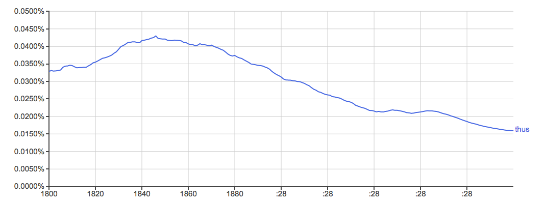 Usage of the English word 'thus' since 1800. From Google Books Ngram Viewer, 2012 English language corpus.[1]